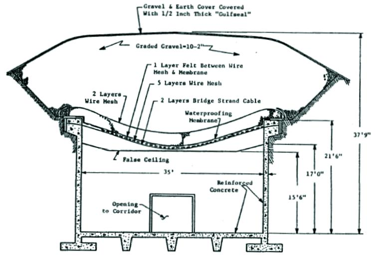 Schematics of a Gravel Gertie nuclear weapons handling bunker, USDOE.